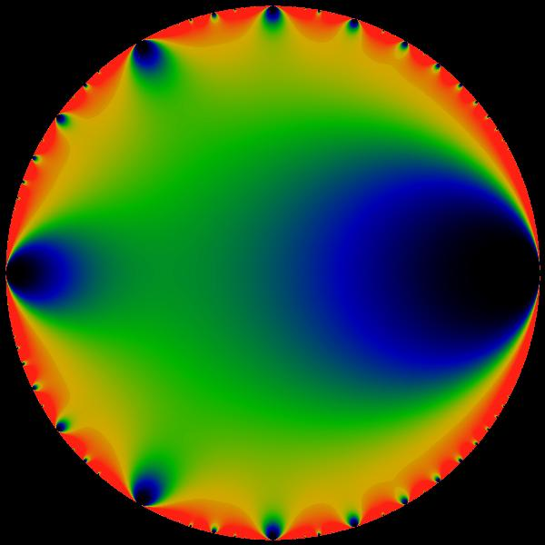 This picture shows the modulus on the complex plane, inside the unit circle , where is Euler's q-series for the Partition of an integer. The fractal self-similarity of this function is that of the modular group; note that this function is closely related to a modular form, the modular discriminant. Every modular function will have this general kind of self-similarity. It is colored with a rainbow of colors, with black representing values near zero, and red values near four. Note the Modular group symmetry, and the general resemblance to colorings of the interior of the Mandelbrot set.